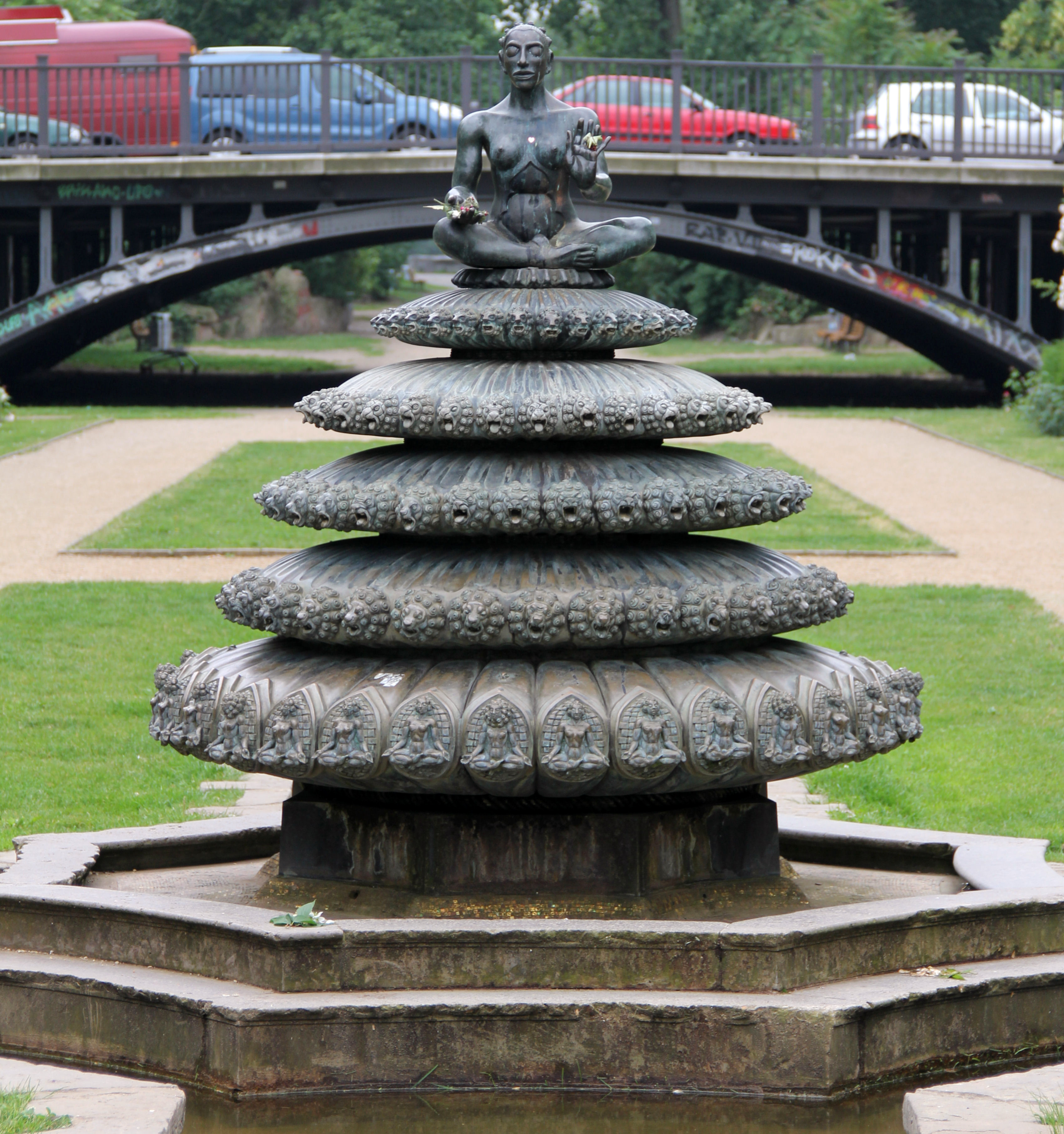 Fountain, Indischer Brunnen, Engelbecken, Berlin-Mitte, Germany